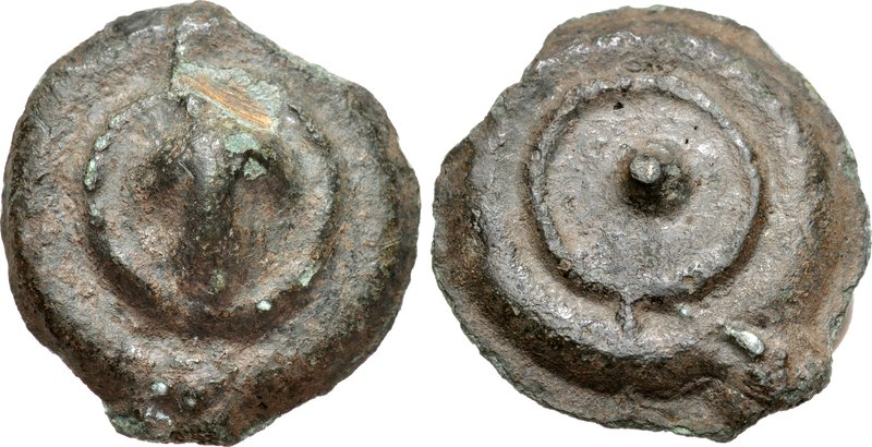 Umbria, Iguvium. Circa 280-240 BC. Æ Uncia (25 mm, 16.78 g, 12h) (cast coin) Bunch of grapes within raised circle • (mark of value) within raised circle Note: test cut at top of bunch of grapes